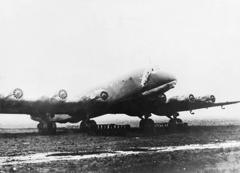 IWM caption : Ju 390 transport with six B.M.W. 801 engines. Pictured abandoned on a German airfield, the propellers have been removed to disable the aircraft.